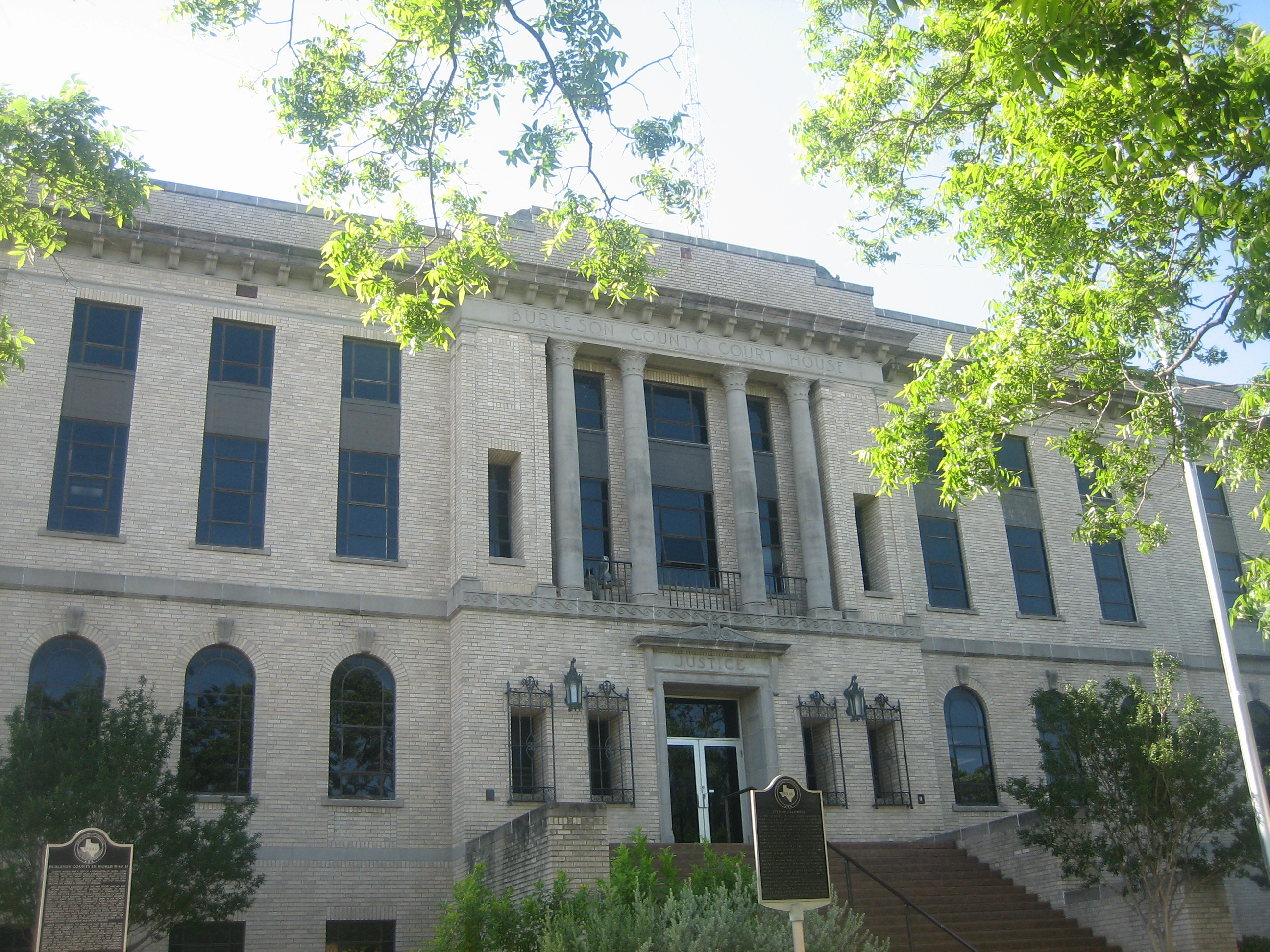 I took photo on May 19, 2009. Billy Hathorn (talk) 03:08, 31 May 2009 (UTC)